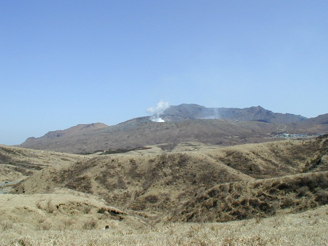 Mount Naka in the Aso Caldera, Japan